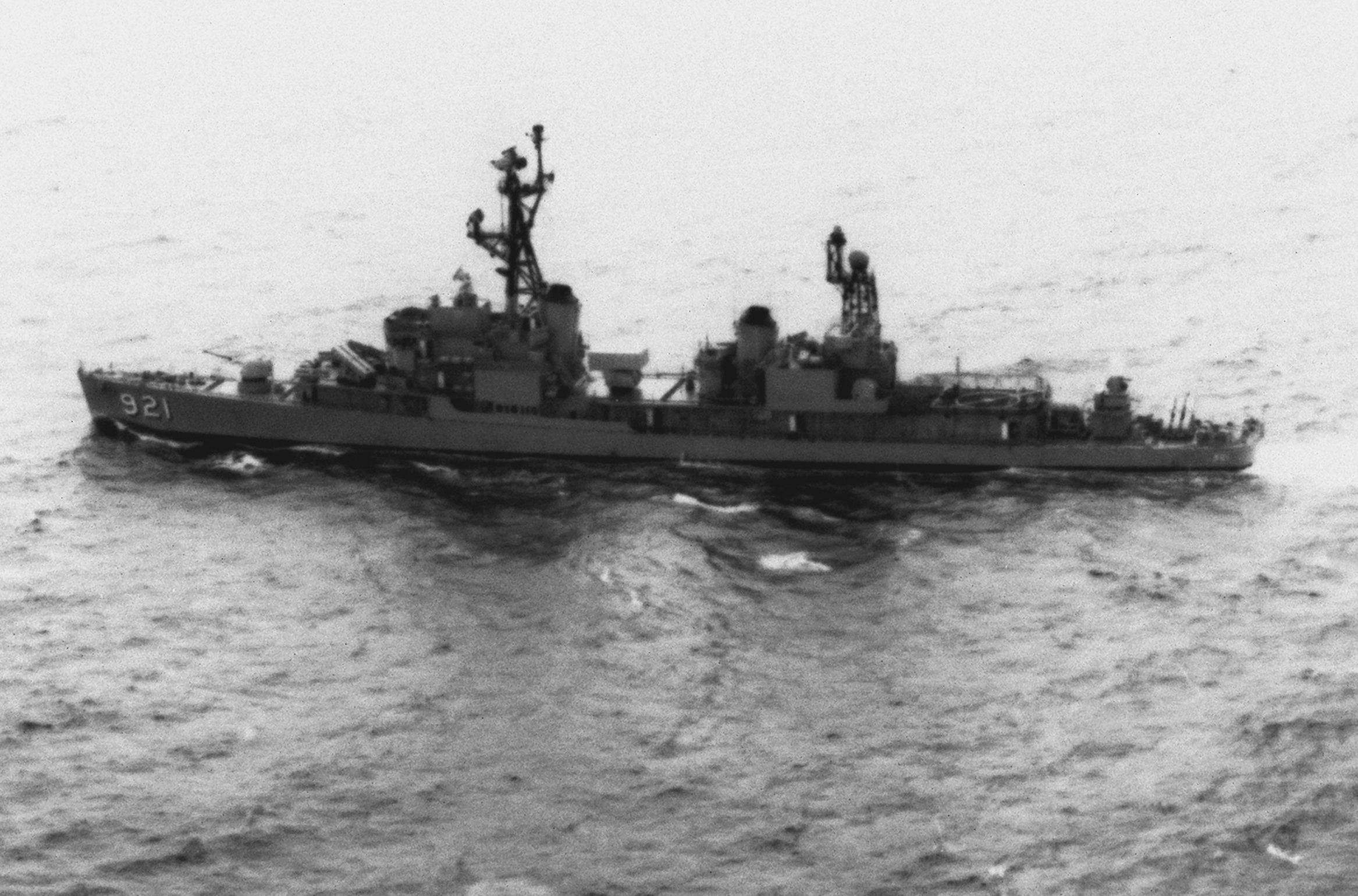 The Taiwanese navy destroyer Liao Yang (DDG-921) underway. The ship was formerly U.S. Navy Gearing-class destroyer the USS Hanson (DD-832). She served in the U.S. Navy 1945-1973 and then in the Taiwanese navy 1973-2004, and was finally sunk as a target in 2006.